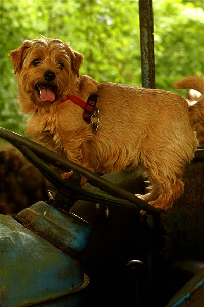 Norfolk Terrier standing on the steering wheel of a rusty old tractor.